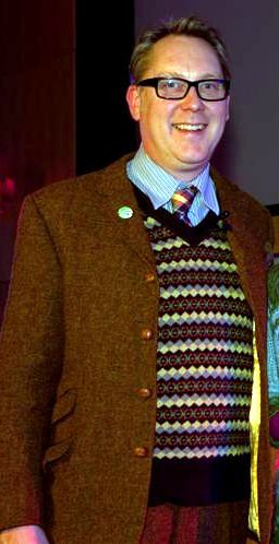 crop of Vic Reeves from photo with a University of Salford student who won the BBC Partnership Award for Writing at the Connect & Create Conference in Middlesbrough. Levels adjusted.